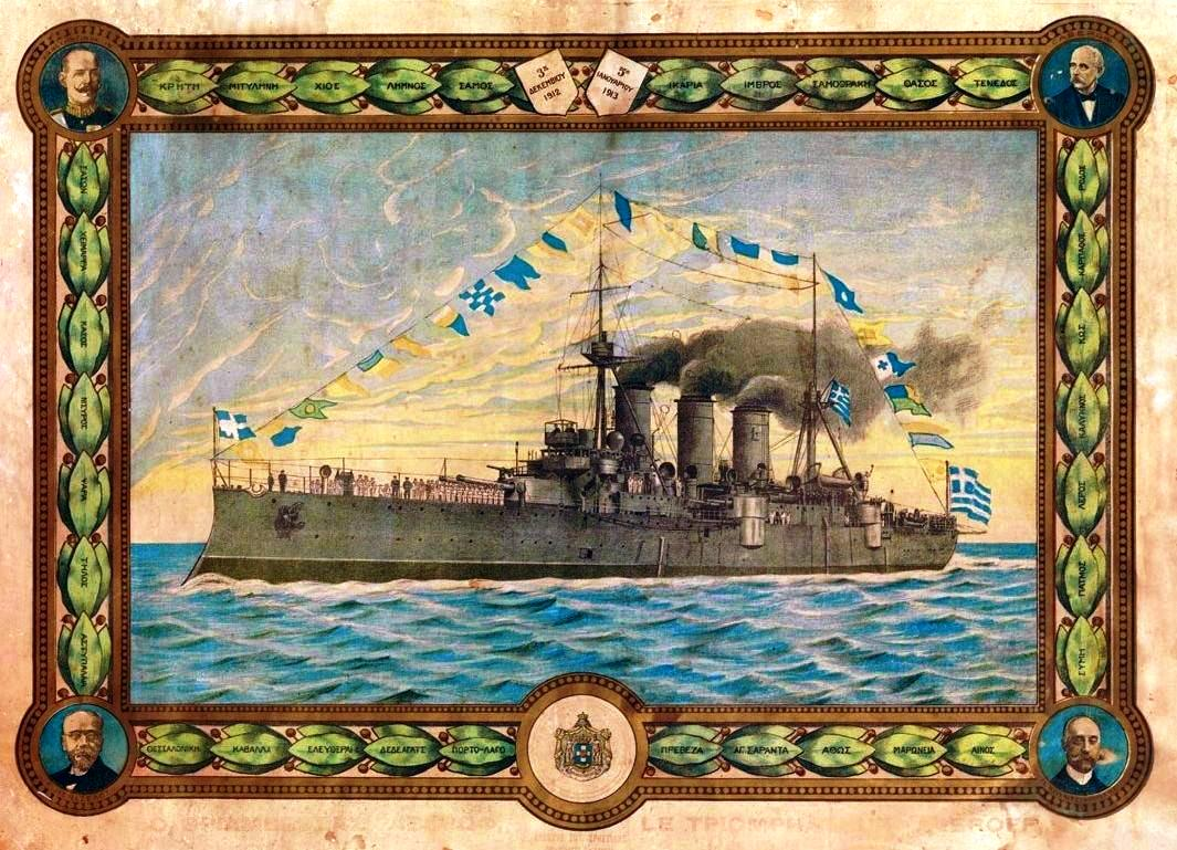 Greek lithograph honouring the armoured cruiser Averof for its role as the Greek fleet's flagship in the Balkan Wars. Clockwise from top left are depicted: King Constantine I of Greece, the businessman Georgios Averoff, Admiral Pavlos Kountouriotis and Prime Minister Eleftherios Venizelos. The laurels bear the names of the Greek islands and coastal towns taken by the Greek navy, and the two shields the dates of the two great naval battles of Elli and Lemnos.